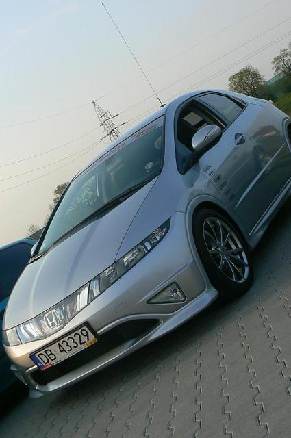 Honda Civic Type R